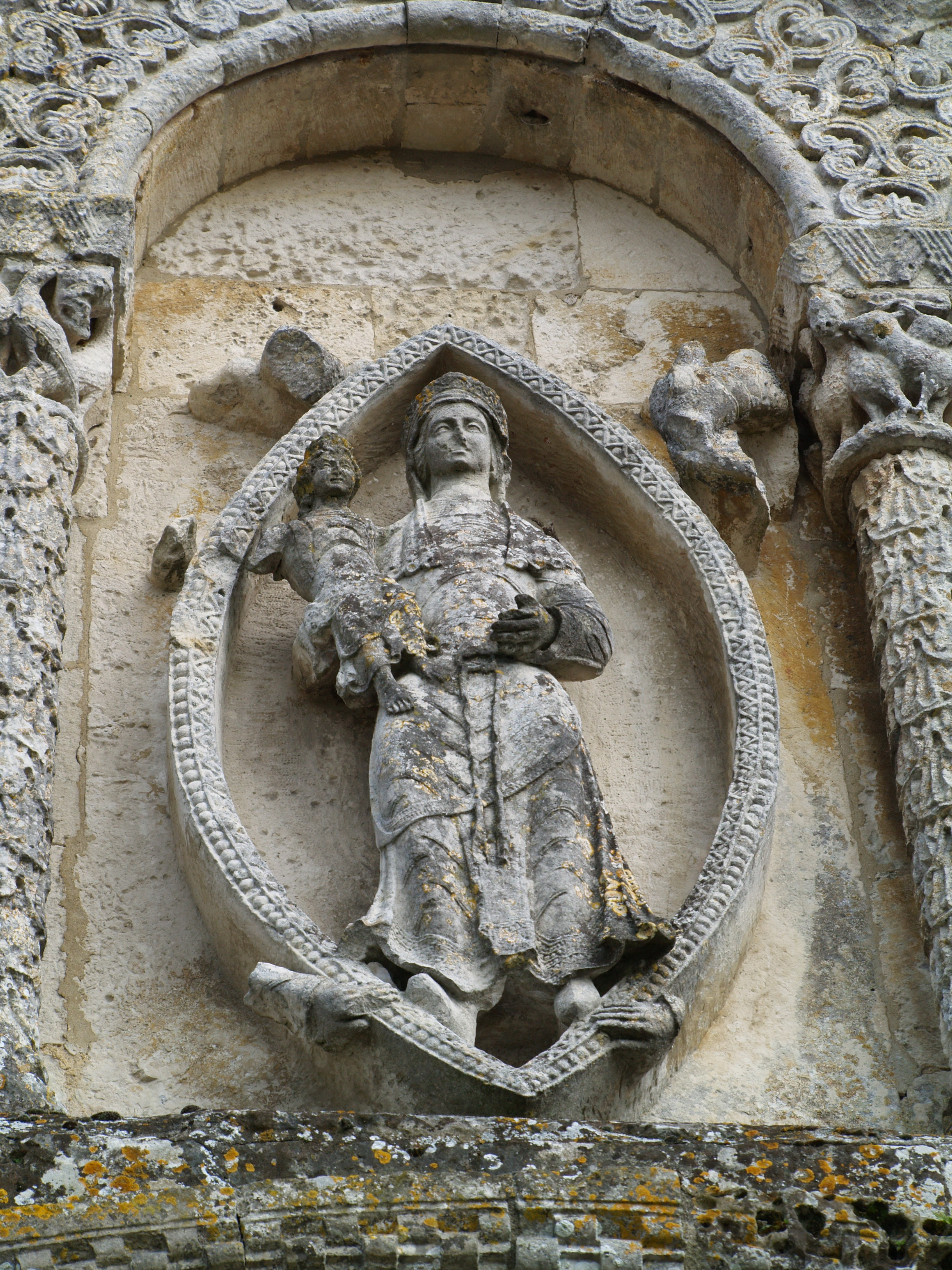 The Madonna and Child in a mandorla (XIIth century) - Church Notre-Dame - Rioux (Charente-Maritime, France)